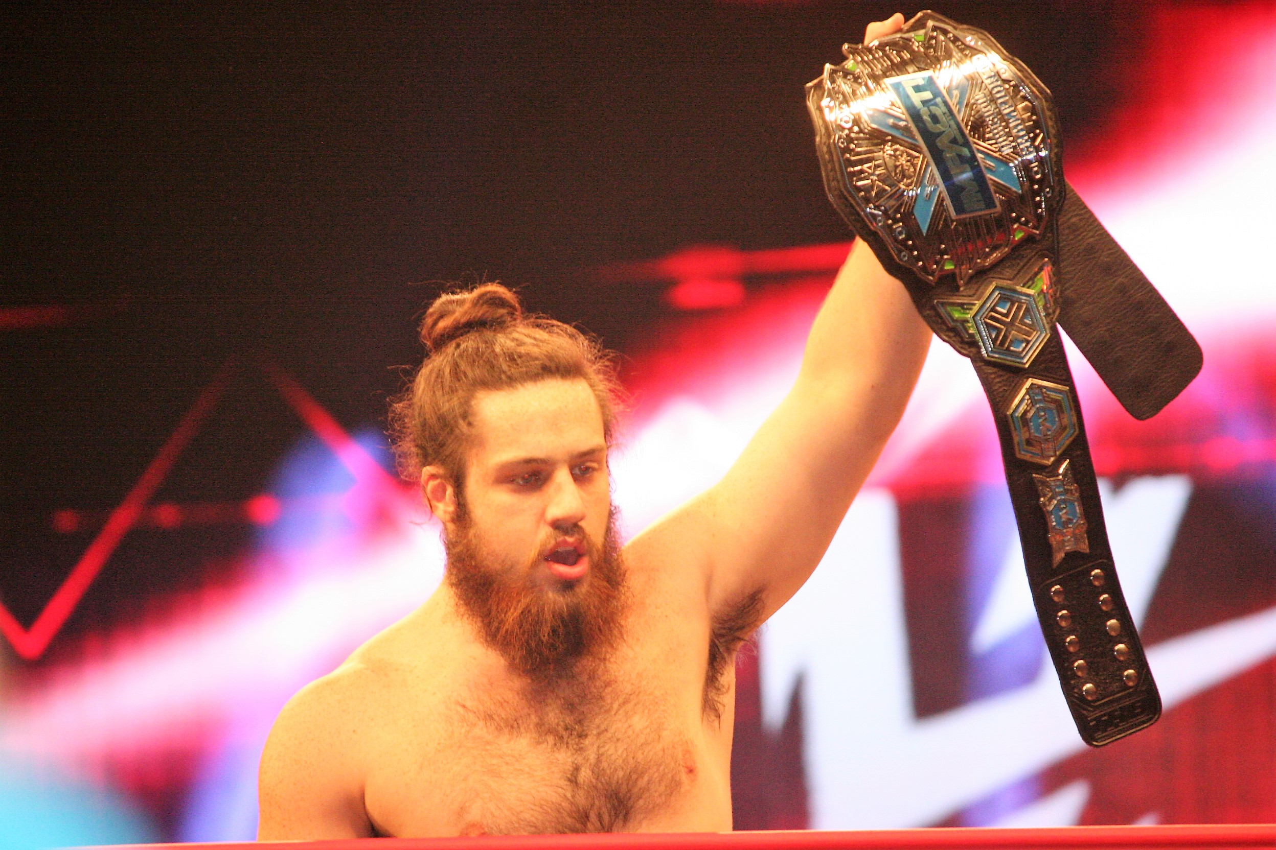 Trevor Lee as the X Division Champion at Impact Wrestling's Bound for Glory event in November 2017.